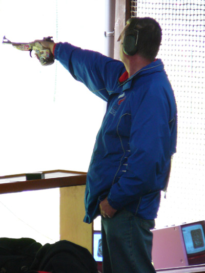 Author: Igor Rulyov, Place: World Cup Munich'07